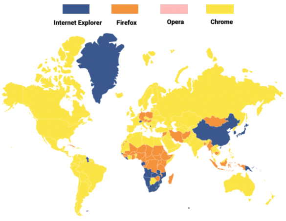 2015 web browsers around the world